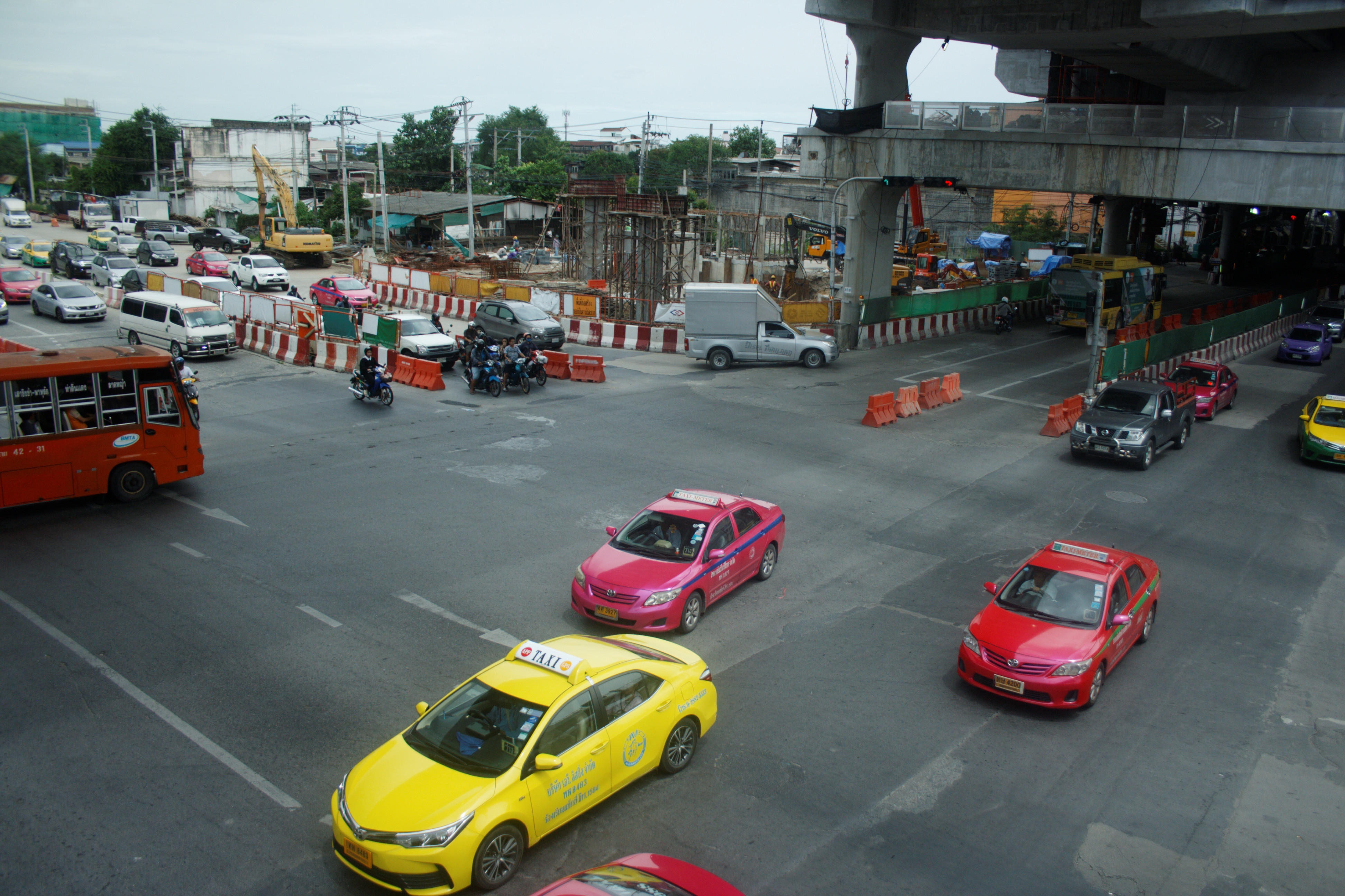 Fai Chai Intersection in 2018 with MRT construction mostly finished